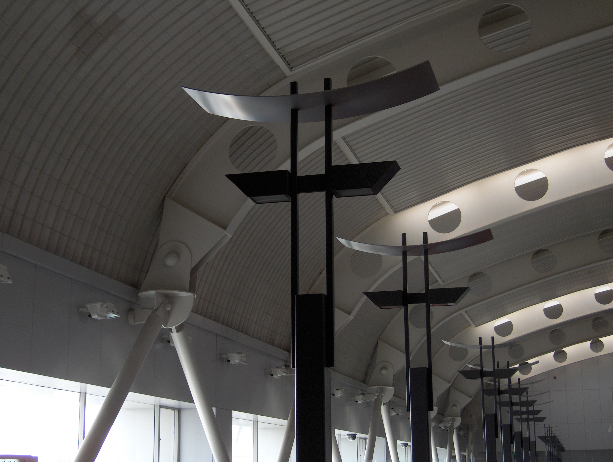 Structural shot of Beijing Airport Terminal 2 departure lounge